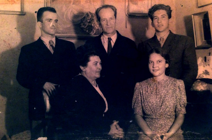 Леонид Кузьмин в кругу семьи в Финляндии